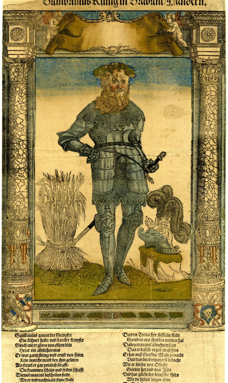 Broadside on Gampar, a mythical Germanic king and patriarch. He is depicted here standing on a grassy patch wearing plated armour. He wears a long beard, and stands between a sheaf of wheat and a rock on which rests his plumed helmet. The scene is a hand-cloured woodcut by Nikolaus Stör, bounded by a columns and other architectural elements illustrated by Peter Flötner. The legend below is a letterpress verse by Burkhard Waldis. One print in a series of 12 broadsides on early Germanic kings.